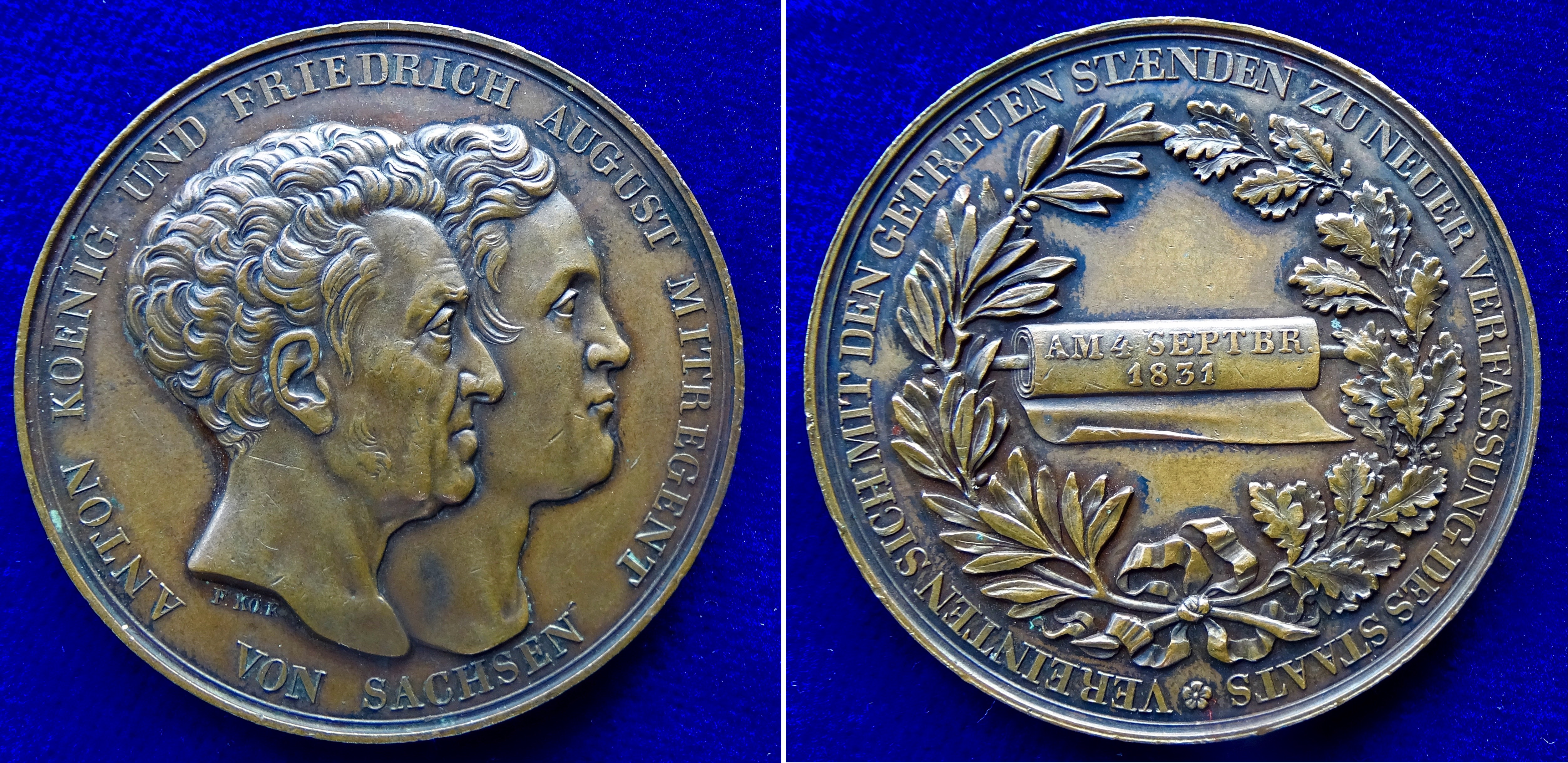 Medallion d. = 47 mm. Anton, King of Saxony 1827 - 1836 & Regent Friedrich August 1830 - 1836 Conjoined heads r., around: "ANTON KOENIG UND FRIEDRICH AUGUST MITREGENT VON SACHSEN"/ 2 lines on scroll of the Constitution: "AM 4. SEPTBR. 1831", around: "* VEREINTEN SICH MIT DEN GETREUEN STAENDEN ZU NEUER VERFASSUNG DES STAATS *". Slg. Merseburg 2177; Forrer III, p.196 Condition : VERY FINE+.